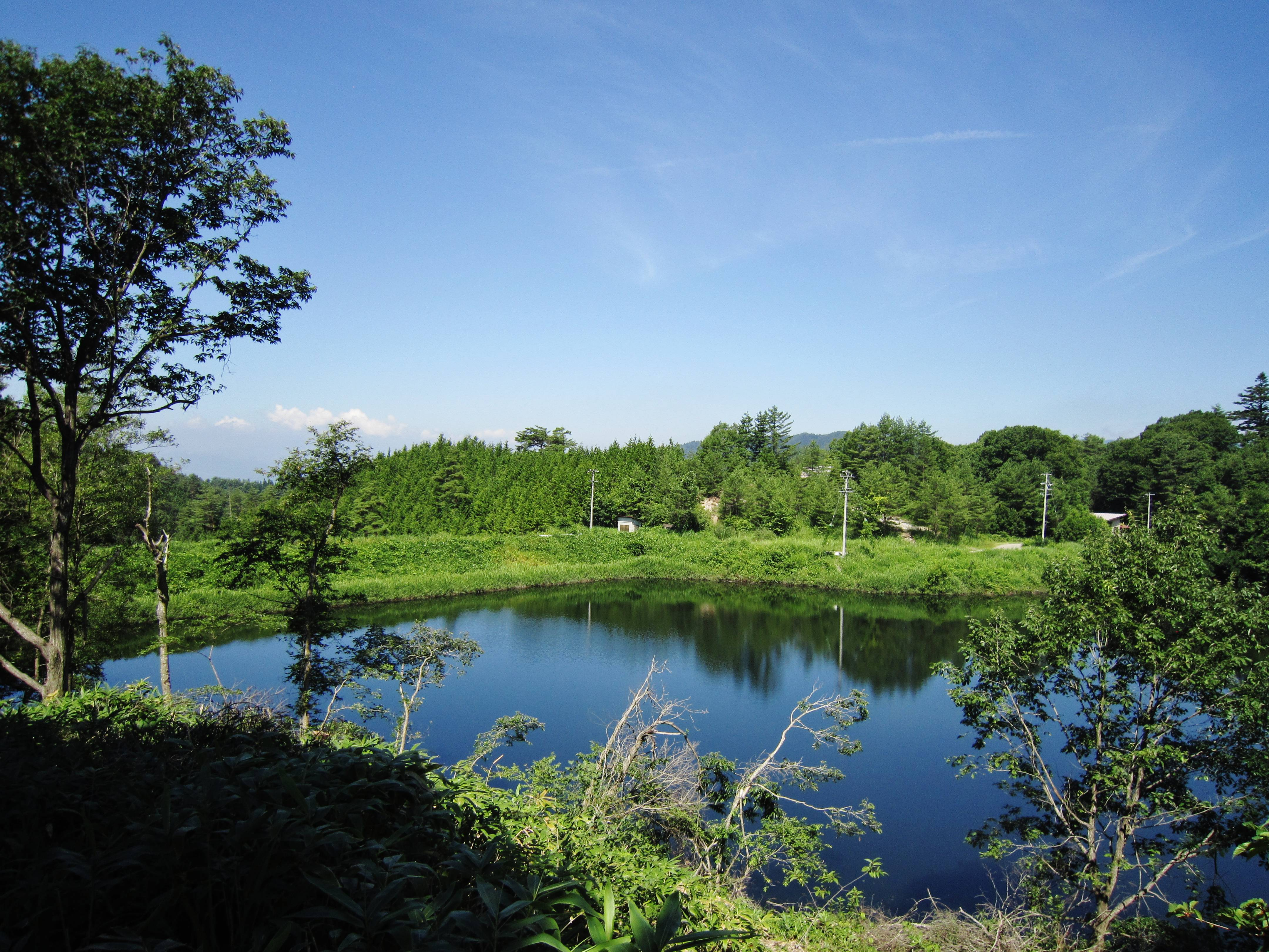 Fukaya Dam.